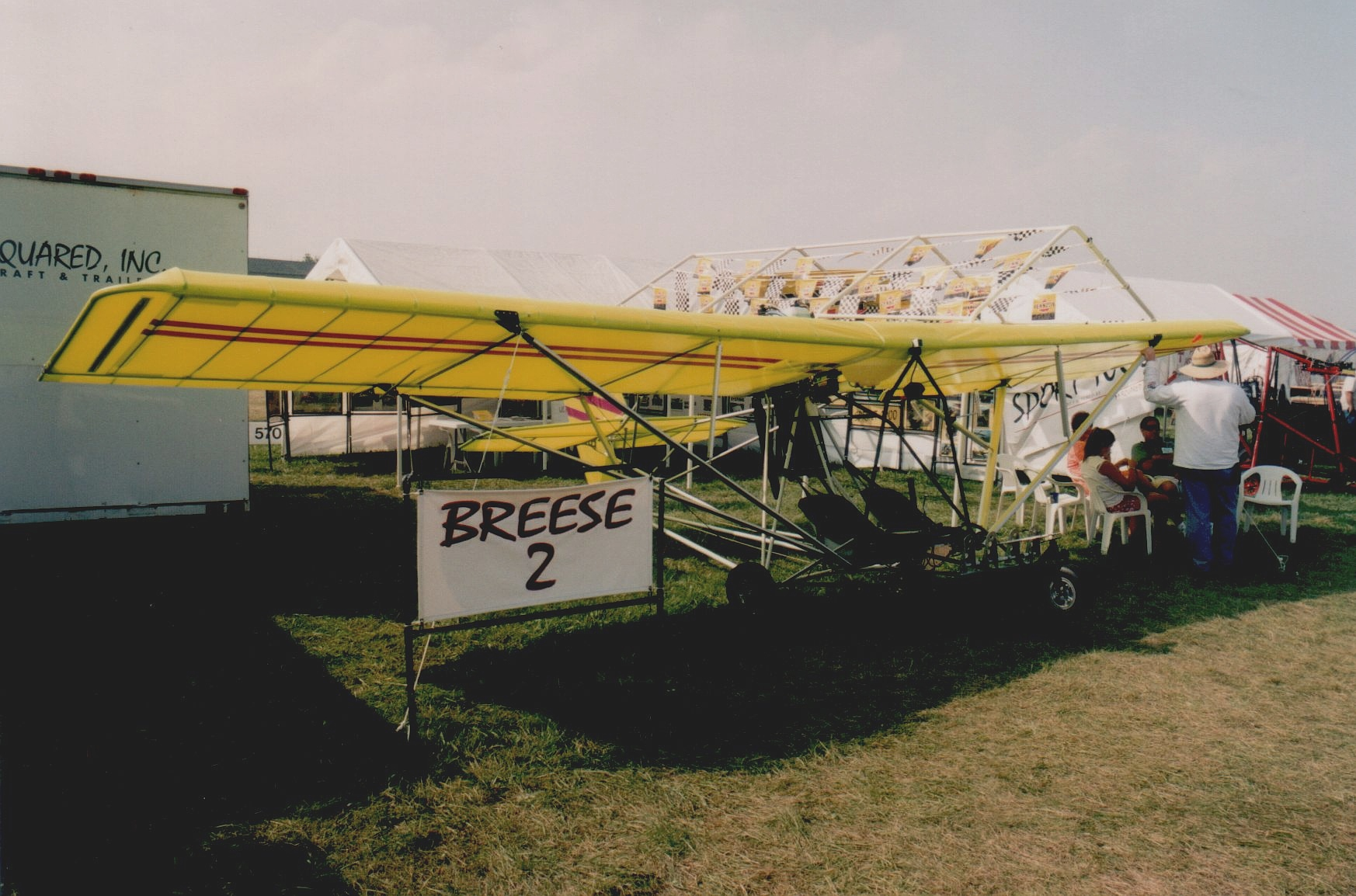 An M-Squared Breese 2 at AirVenture Oshkosh, 2001